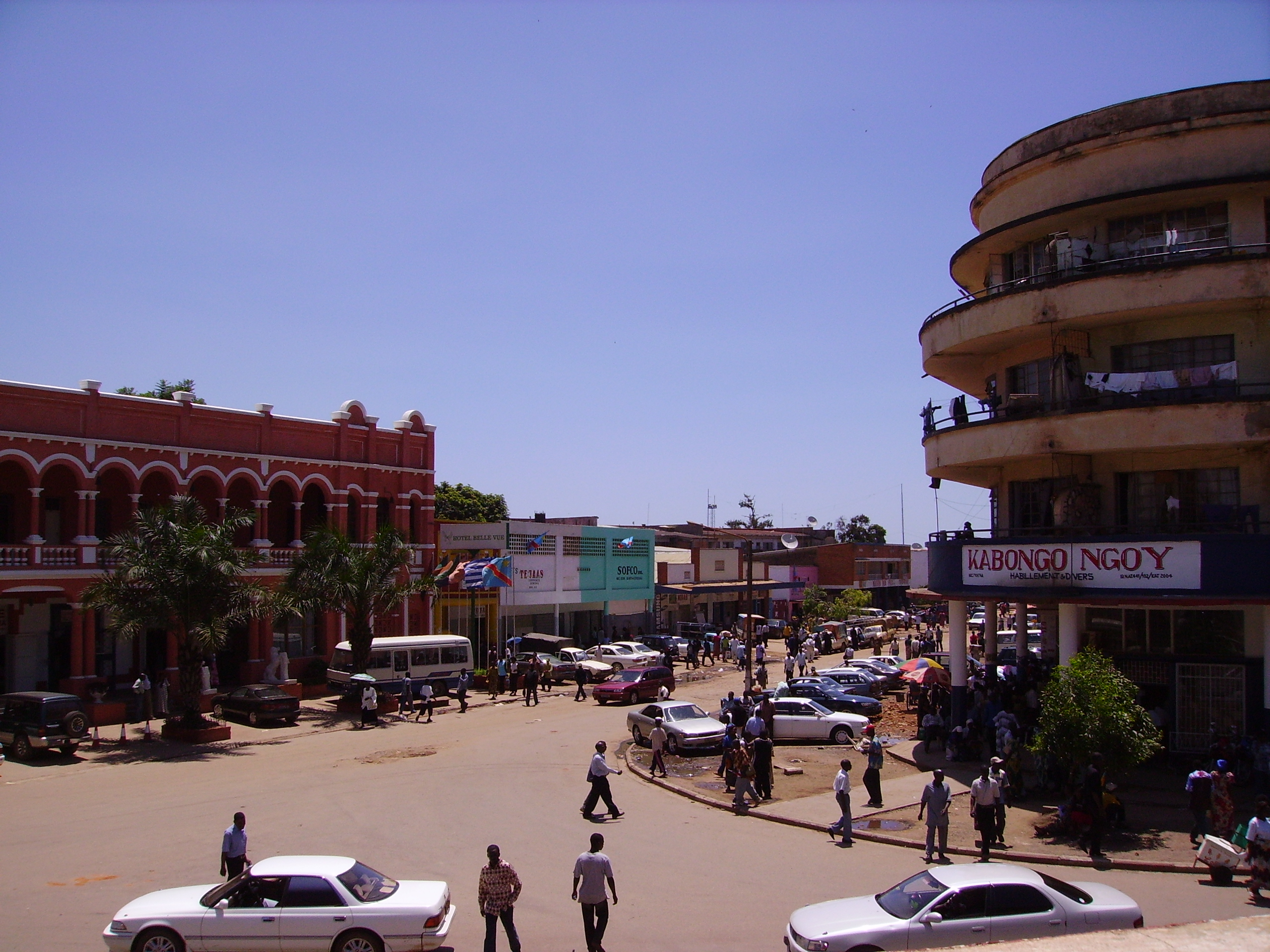 Downtown Lubumbashi in the Democratic Republic of the Congo, with Hôtel Belle on the left and an apartment building on the right.